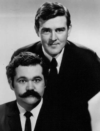 Photo of Avery Schreiber and Jack Burns from the television program Perry Como's Kraft Music Hall.